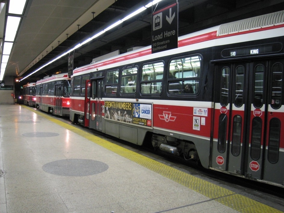 Streetcars underground at Spadina Station in Toronto